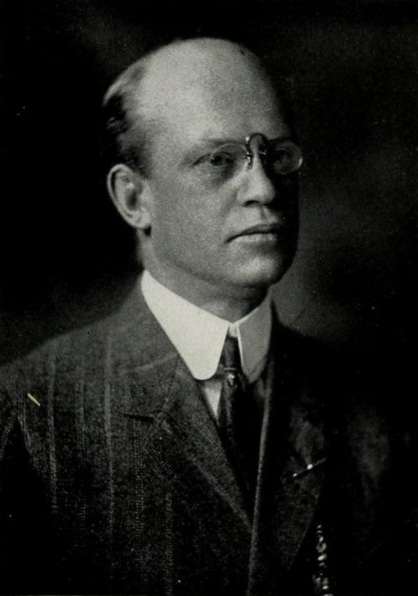 J W H Pollard, Physical Director at WLU